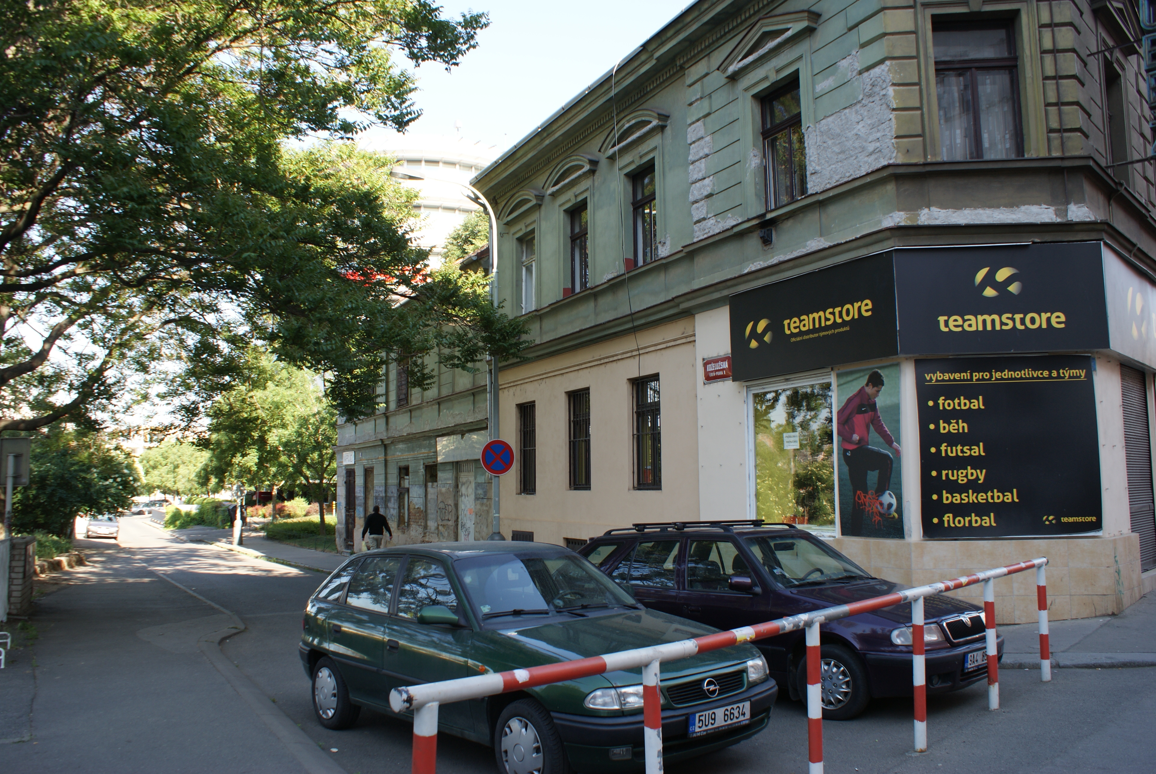 Koželužská street in Libeň, Prague 8, Czech Republic. Česky: Koželužská ulice, Libeň, Praha 8